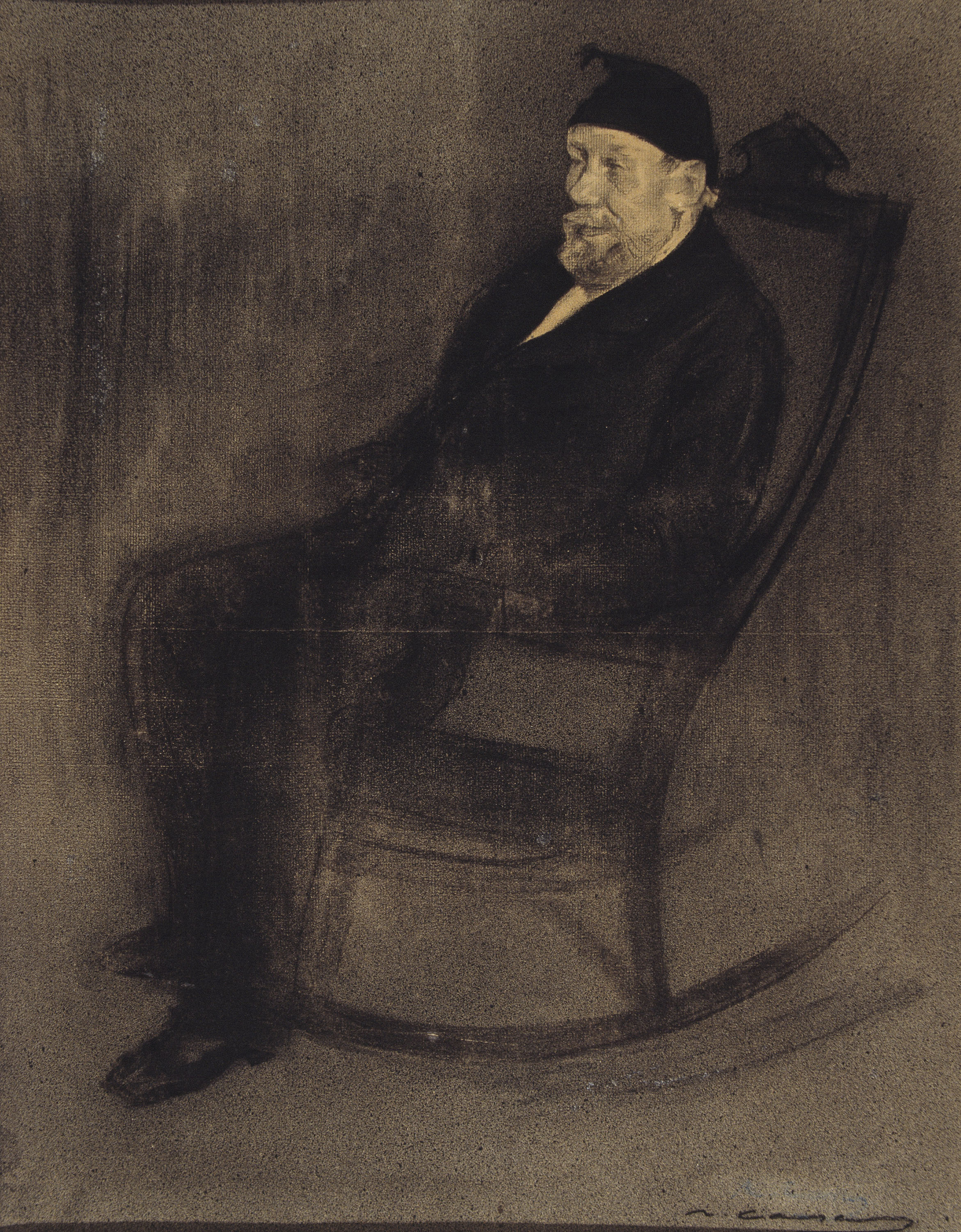 Portrait by Ramon Casas conserved at MNAC in Barcelona. Imagen 072